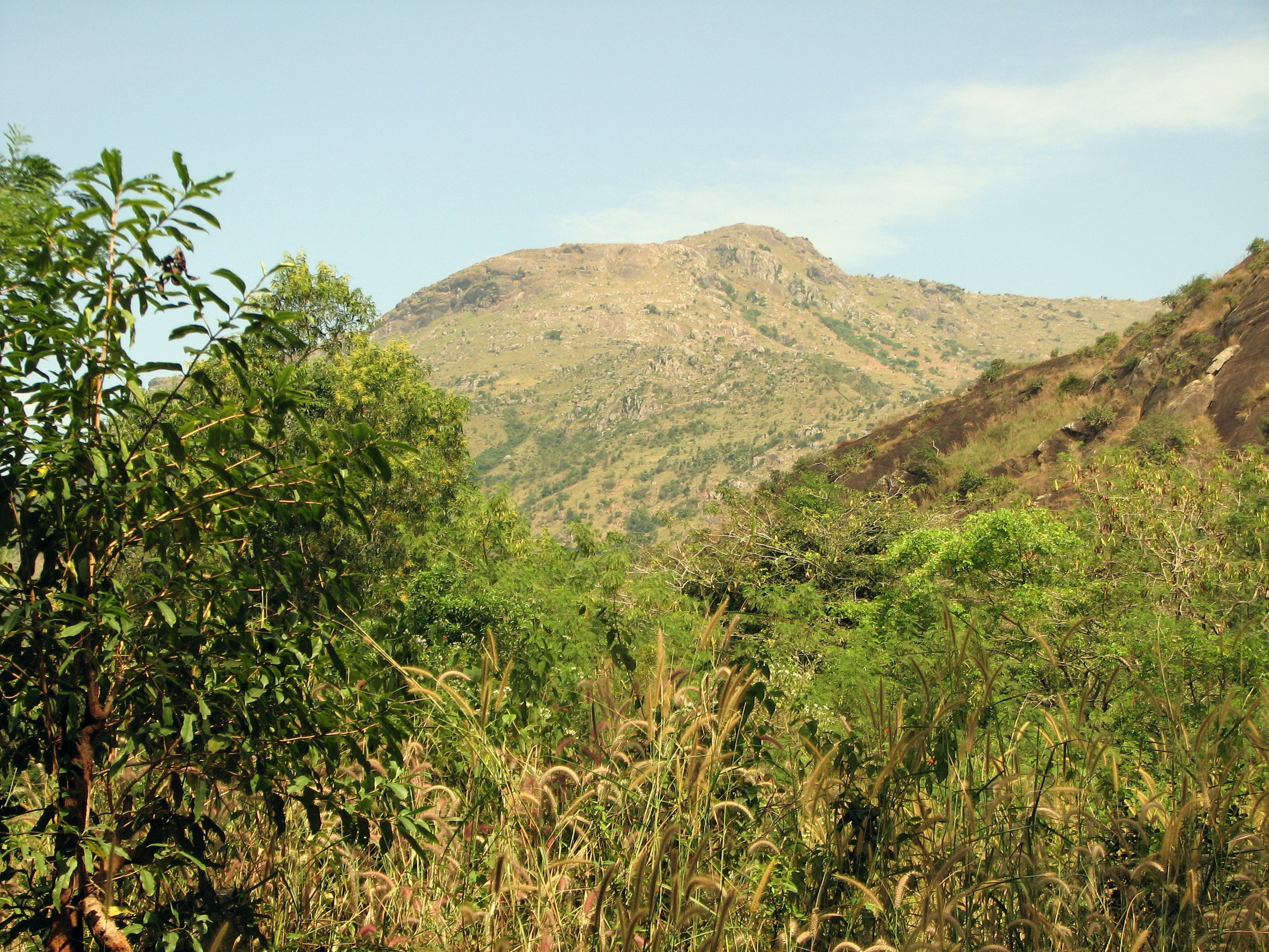 self-made photograph ; Author's Name : Infocaster